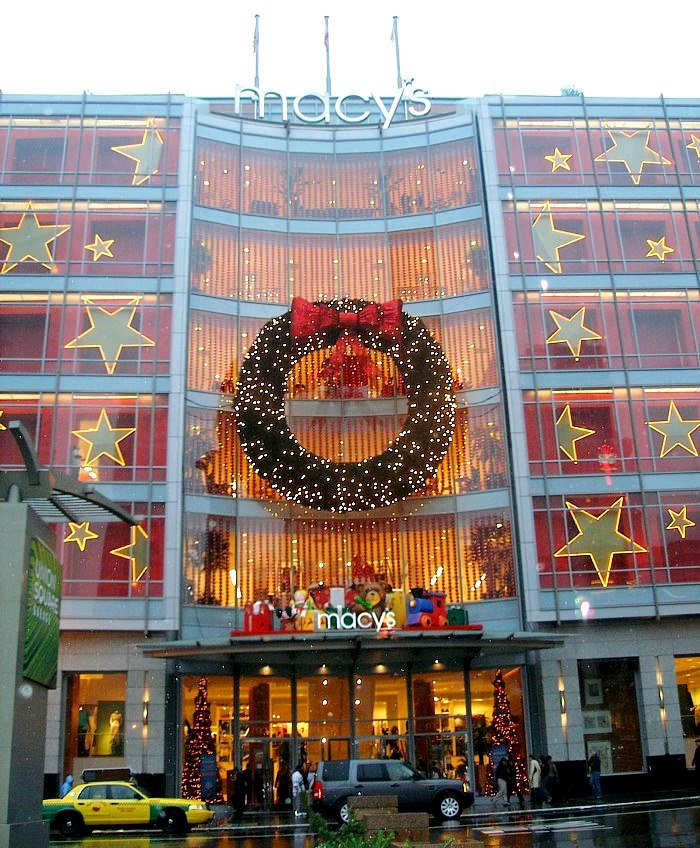 The Macy's West flagship department store in San Francisco. It faces Union Square.